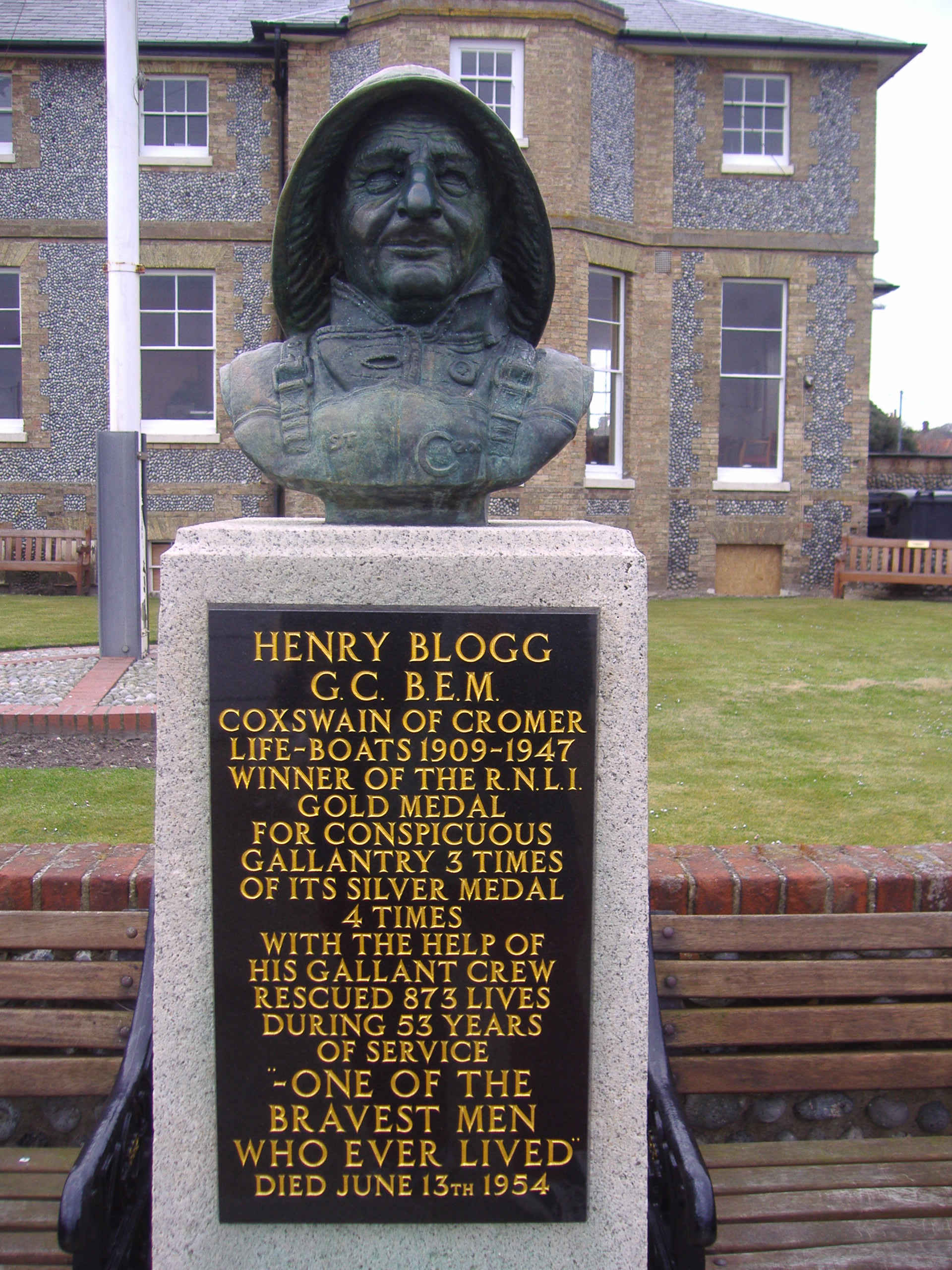 Bust of Henry Blogg in Cromer, Norfolk, England